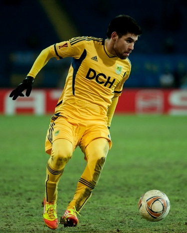 Cristian Villagra in a match against Olympiakos